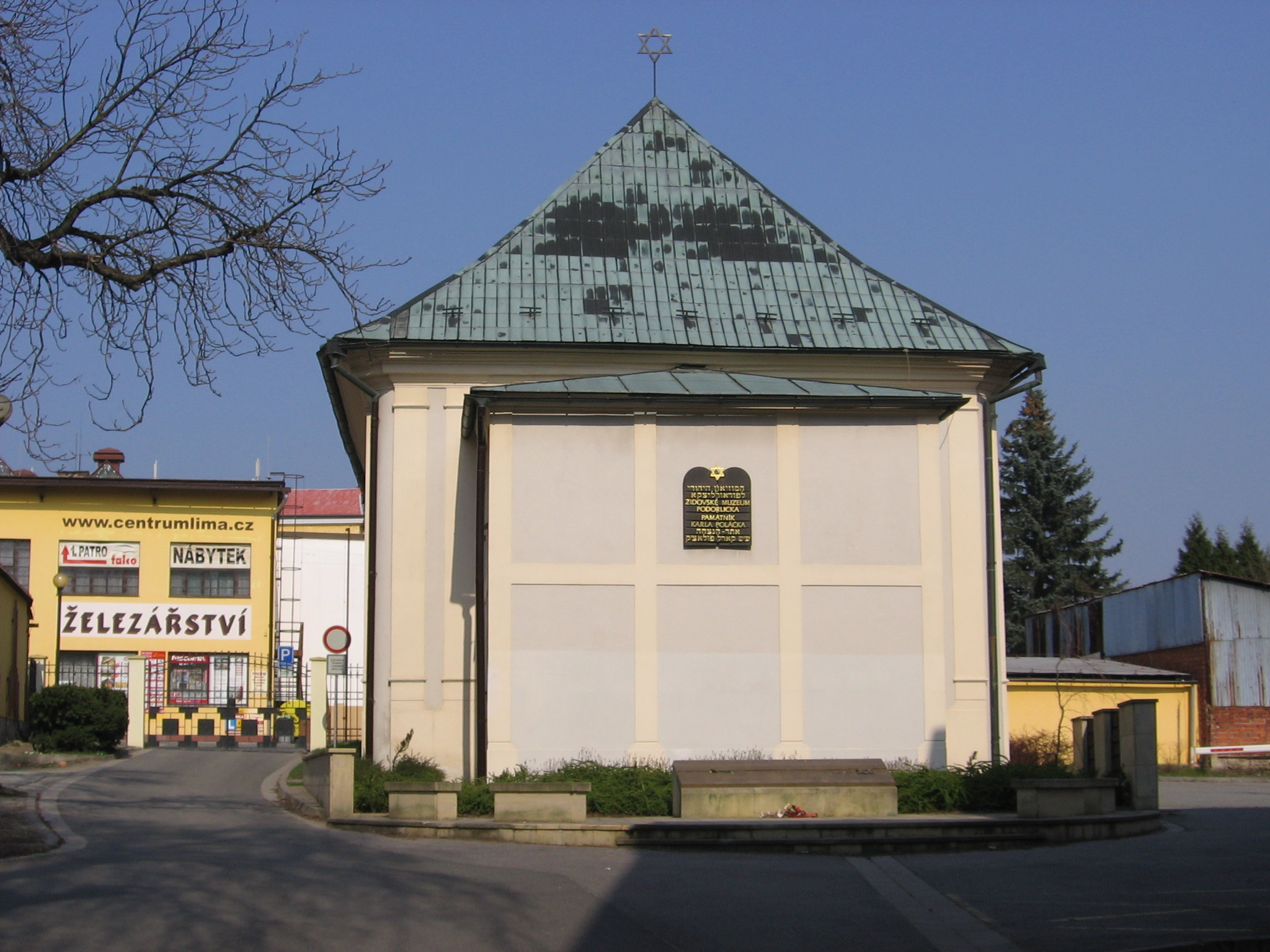 Synagogue in Rychnov nad Kněžnou, nowadays Regional Jewish Museum and Karel Poláček's Memorial